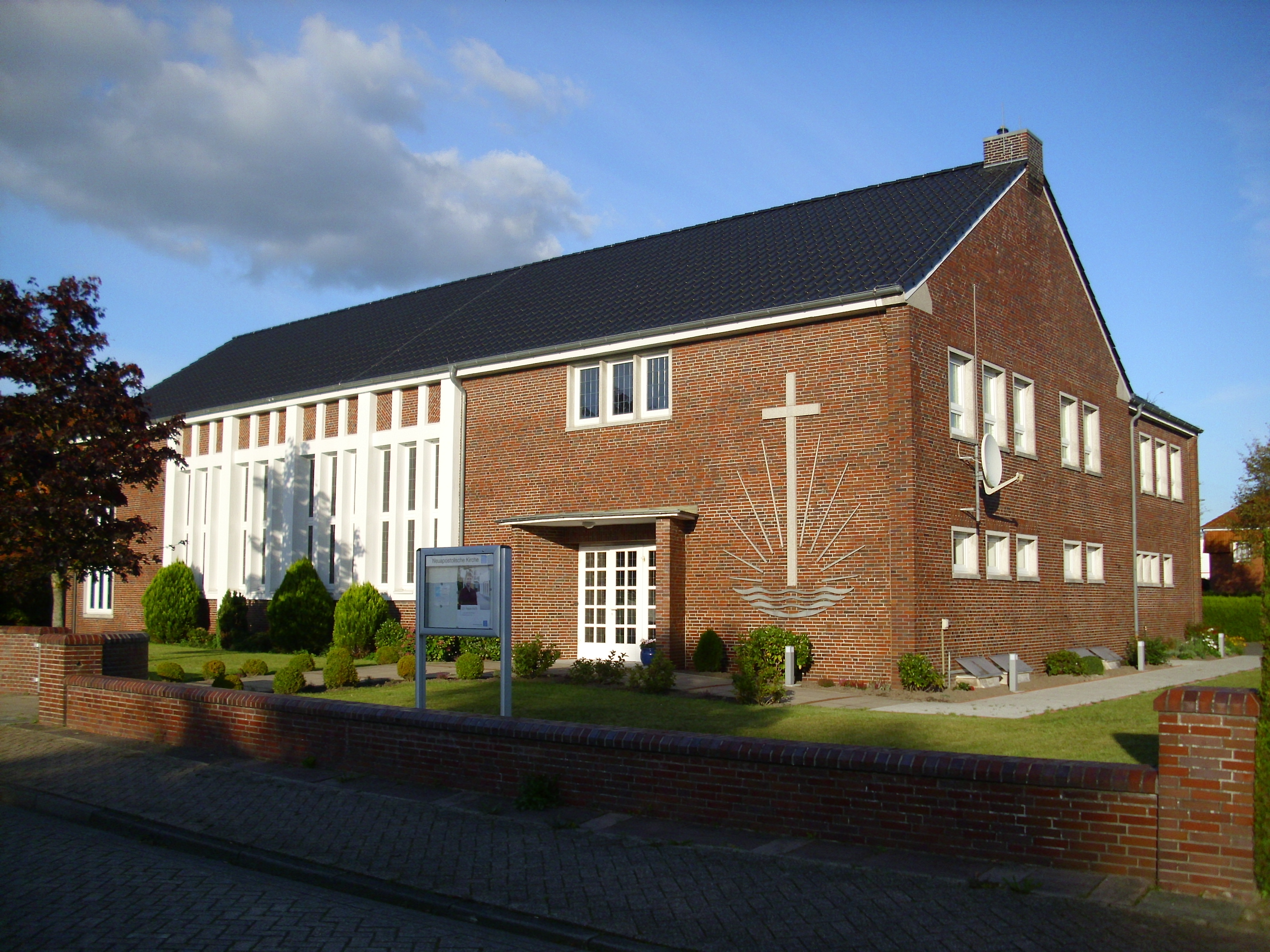 New Apostolic church in Aurich, Von-Frerichs-Street, rural district Aurich, Lower Saxony, Germany, September 2015